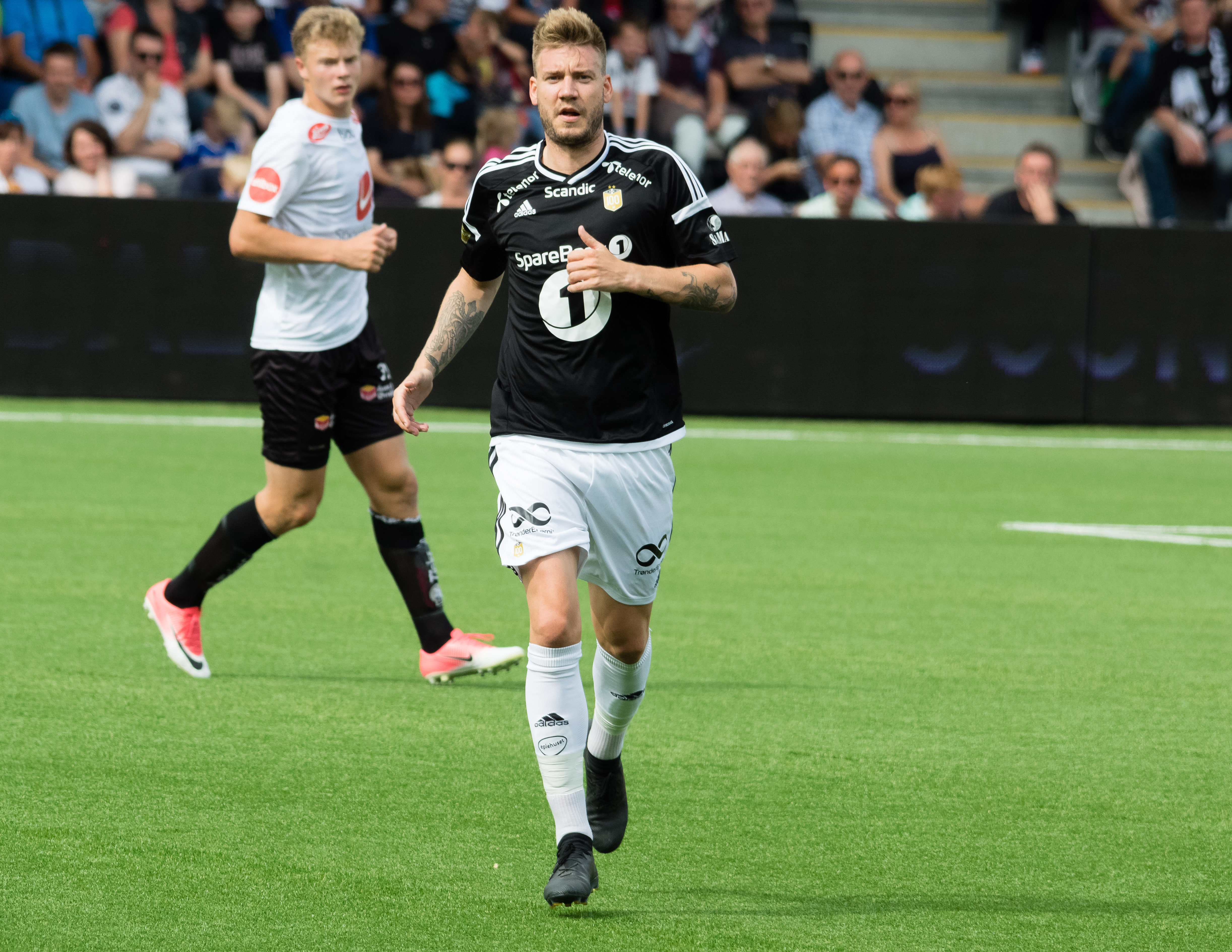 Nicklas Bendtner, Sogndal-Rosenborg 07-15-2017.